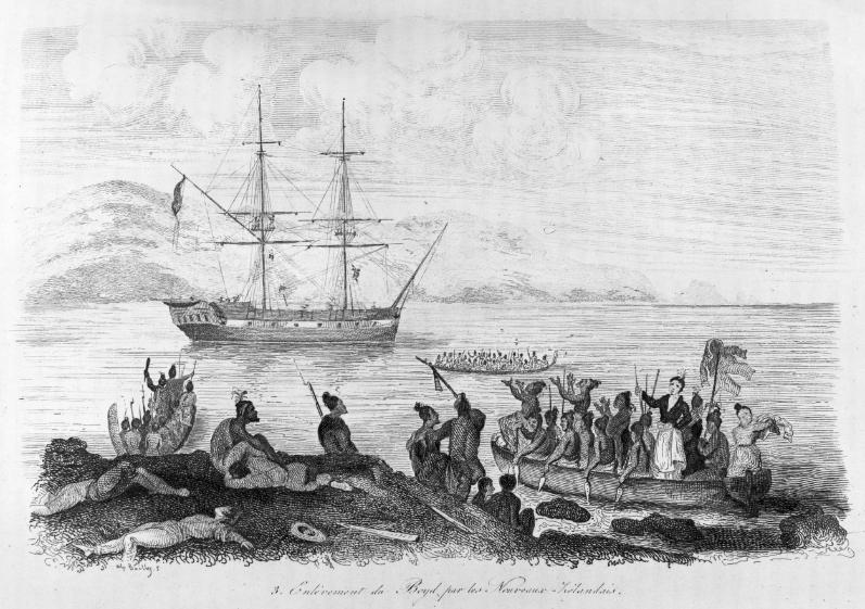 Boyd massacre, 1809